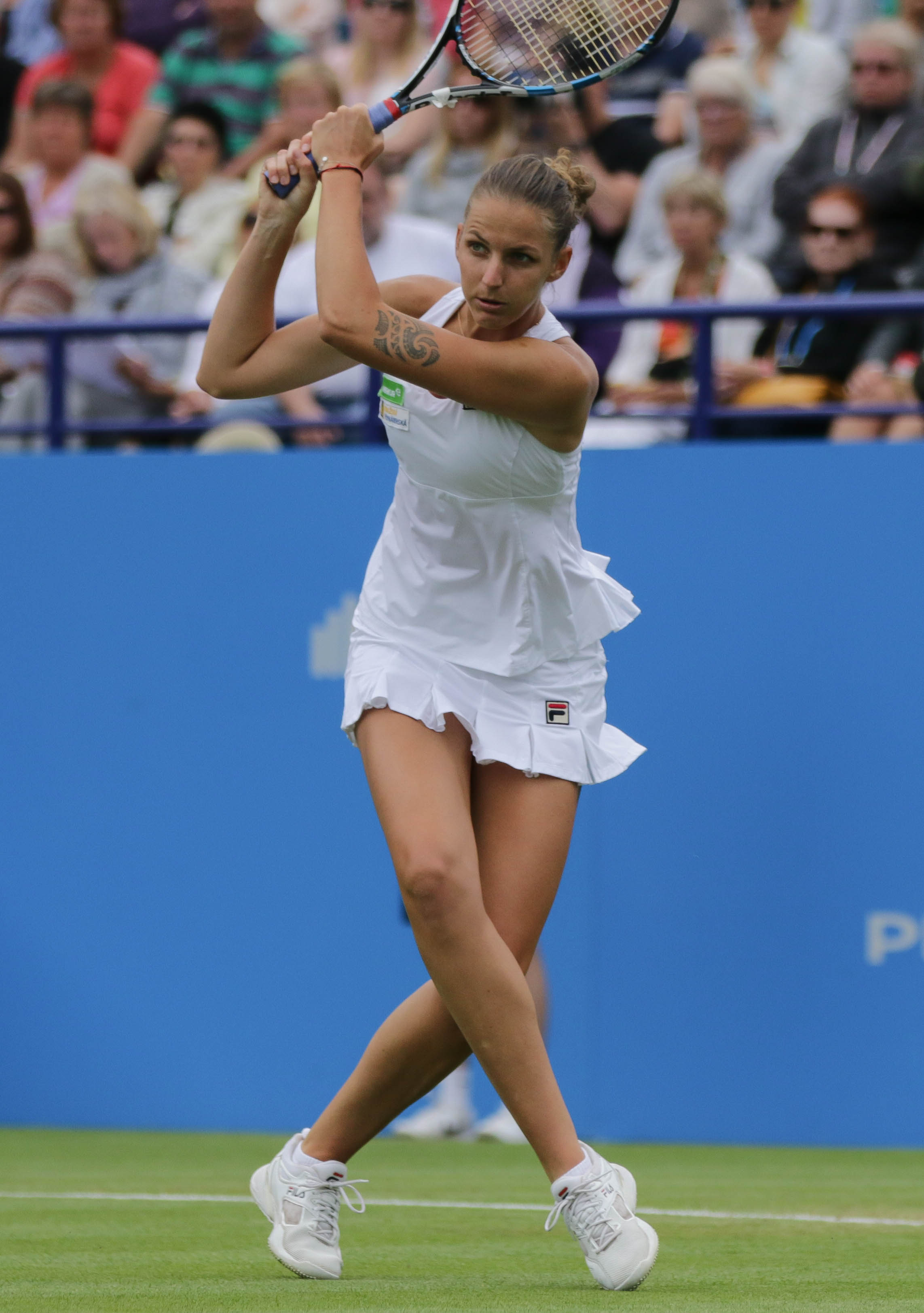 Aegon International Women's Final 2017 Pliscova v Wozniacki-411.jpg